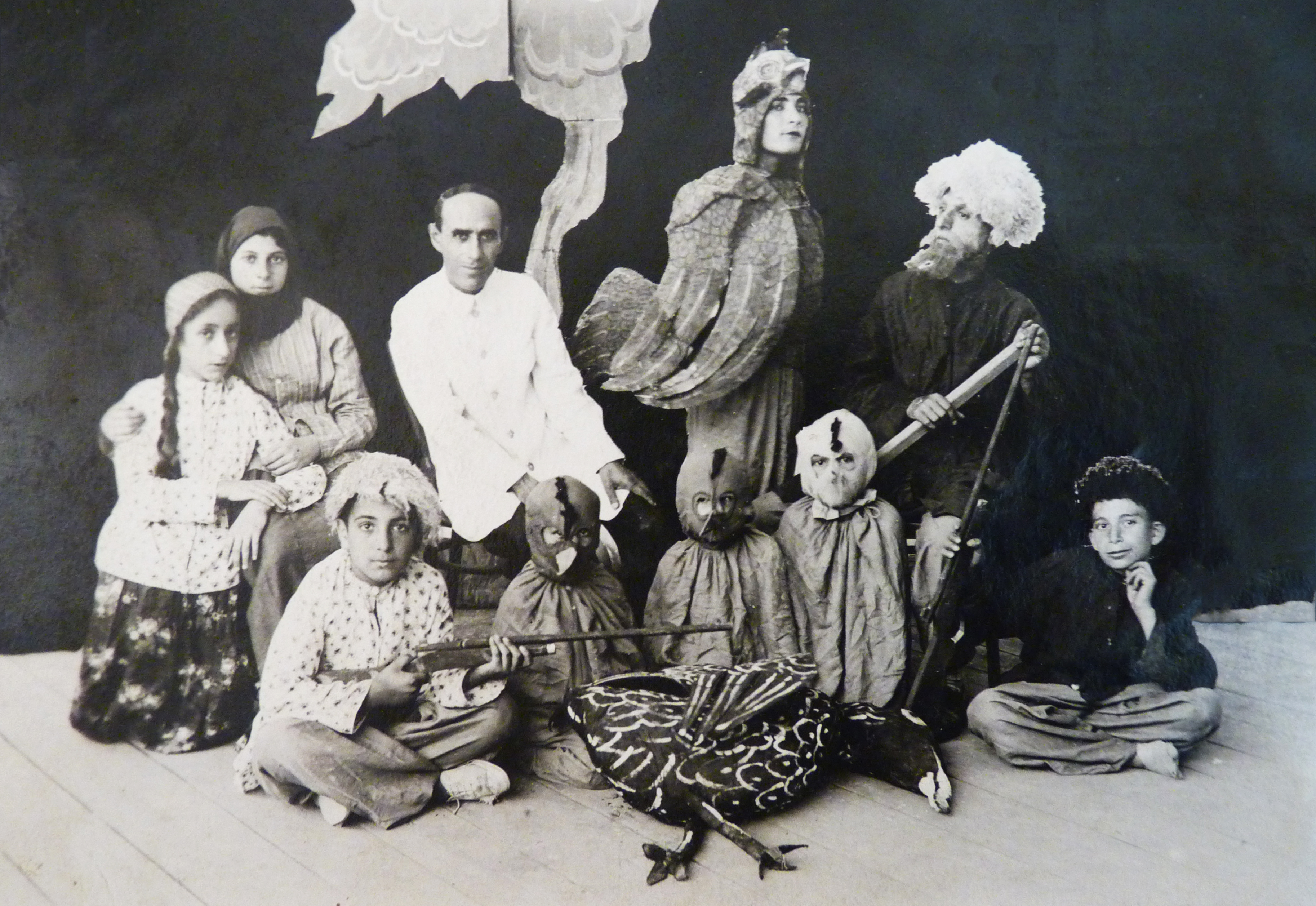 Defeated hawk opera for children, Yerevan, 1937